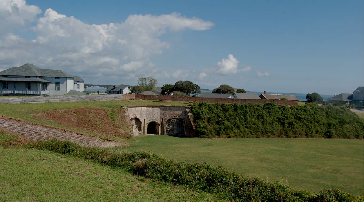 Photo of Fort Caswell